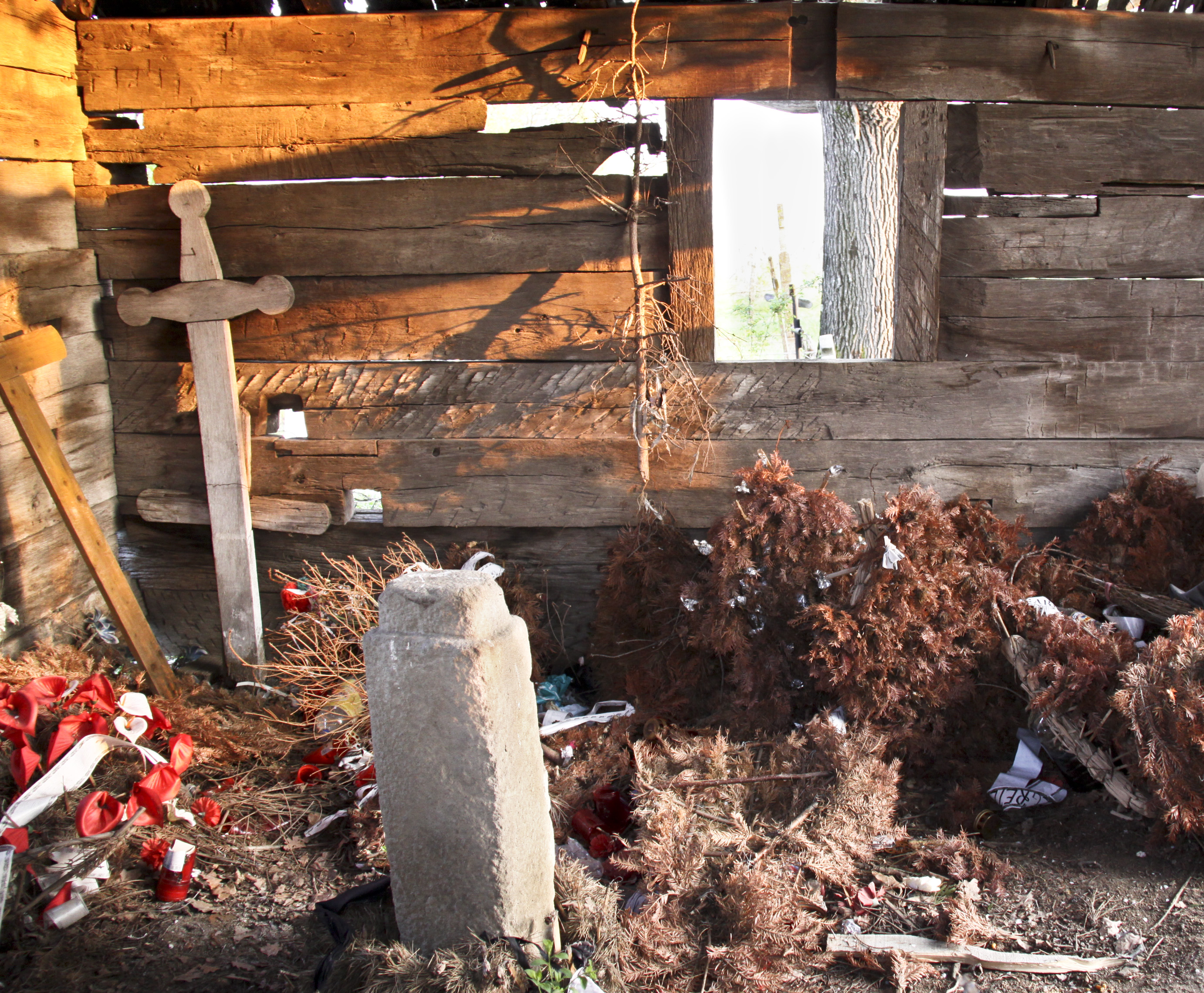 Optăşani, Olt county, Romania: the wooden chapel.